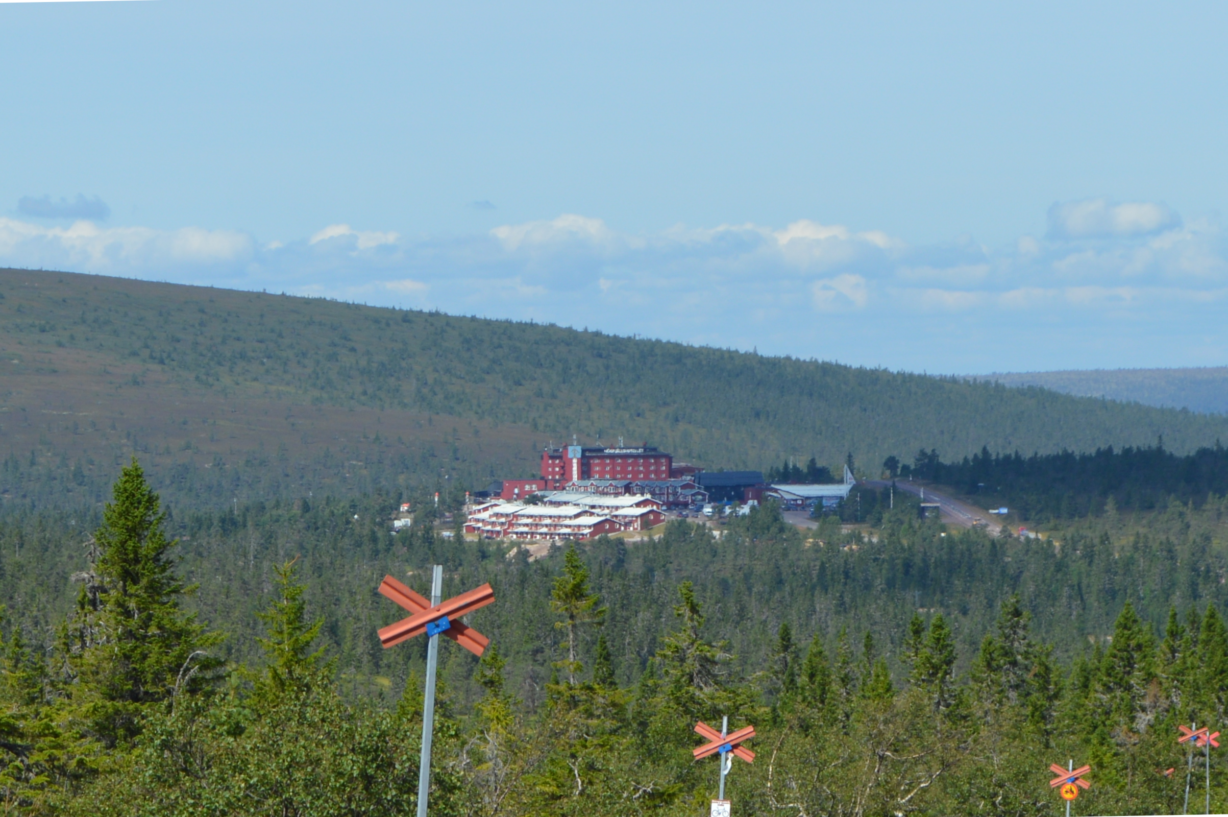 Högfjällshotellet, Sälen, Sweden.